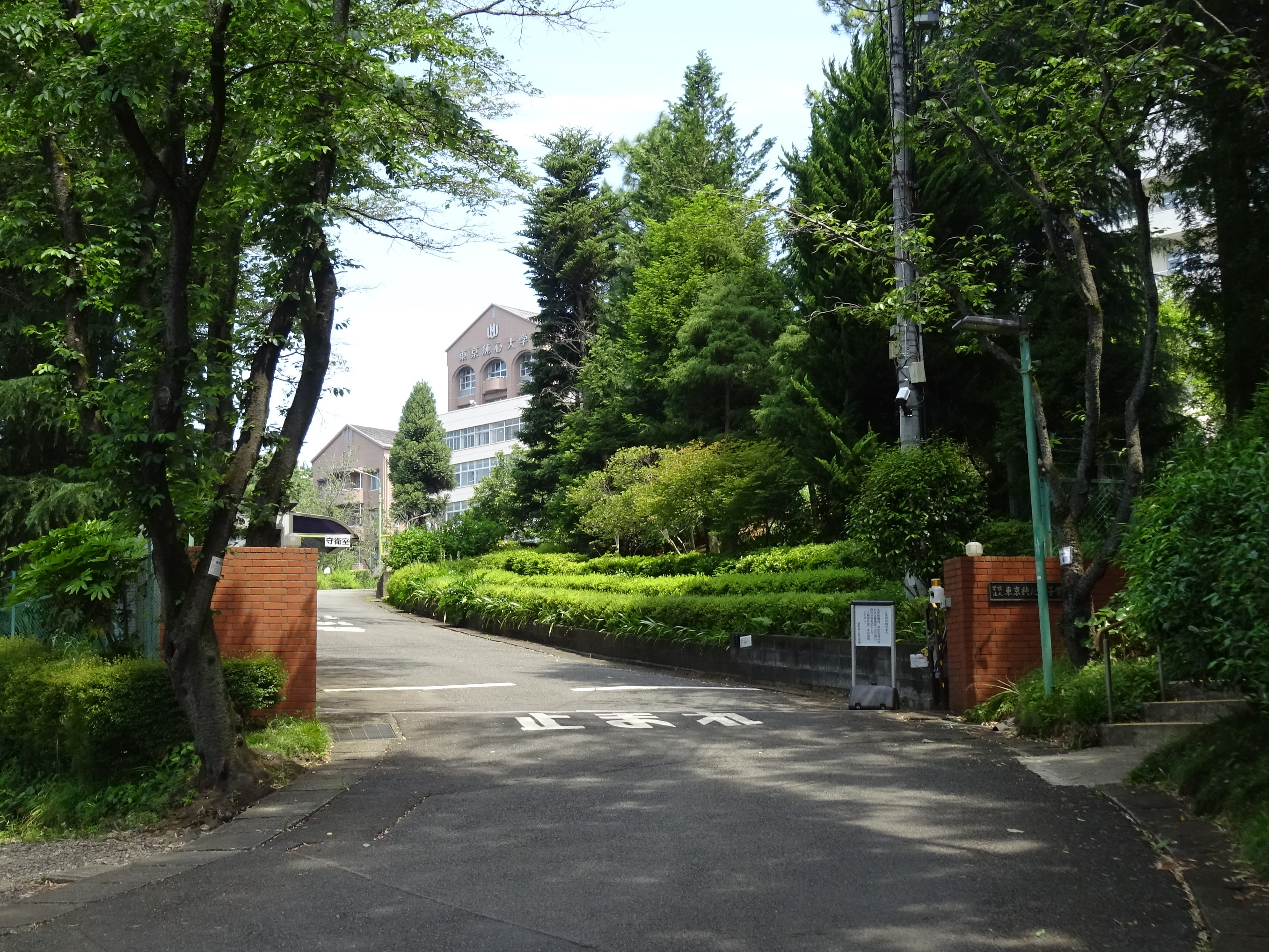 Tokyo Junshin University